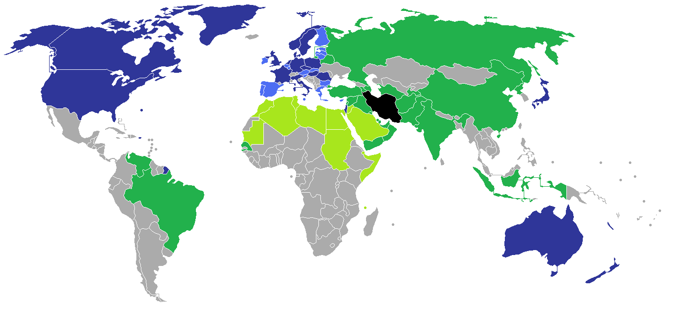 Map of 2009 Iranian presidential elections international responses